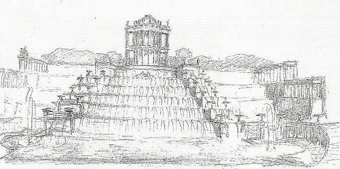 Sketch for the redesign of the mountain "Klausberg", Potsdam. Drawn by Frederick William IV of Prussia